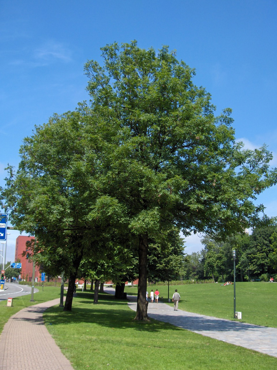 Species Fraxinus excelsior Family Oleaceae